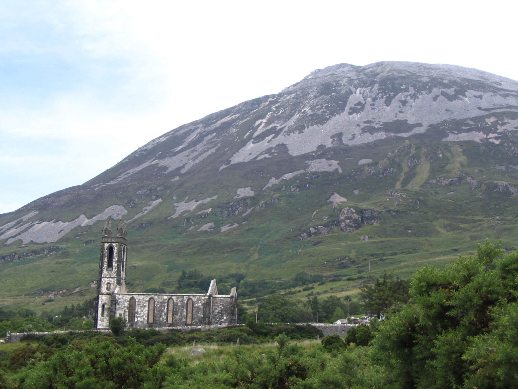 Dun Luiche - Errigal Mountain